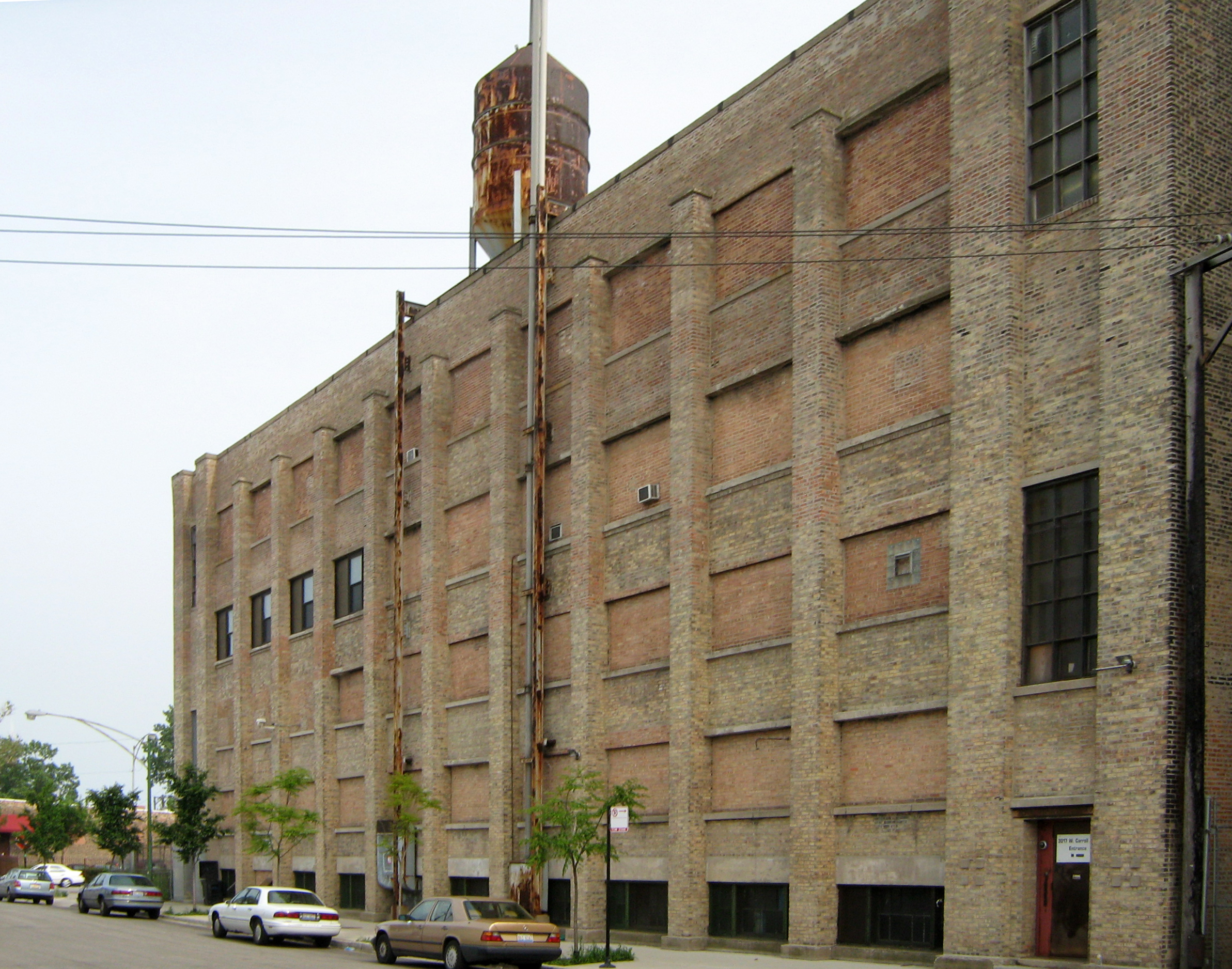 E-Z Polish Factory (1905) 3005-17 W Carroll Ave Chicago, IL 60612 Architect: Frank Lloyd Wright